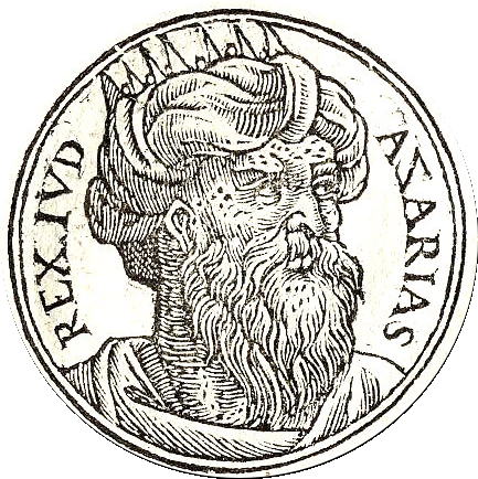 Ozias-Uzziah